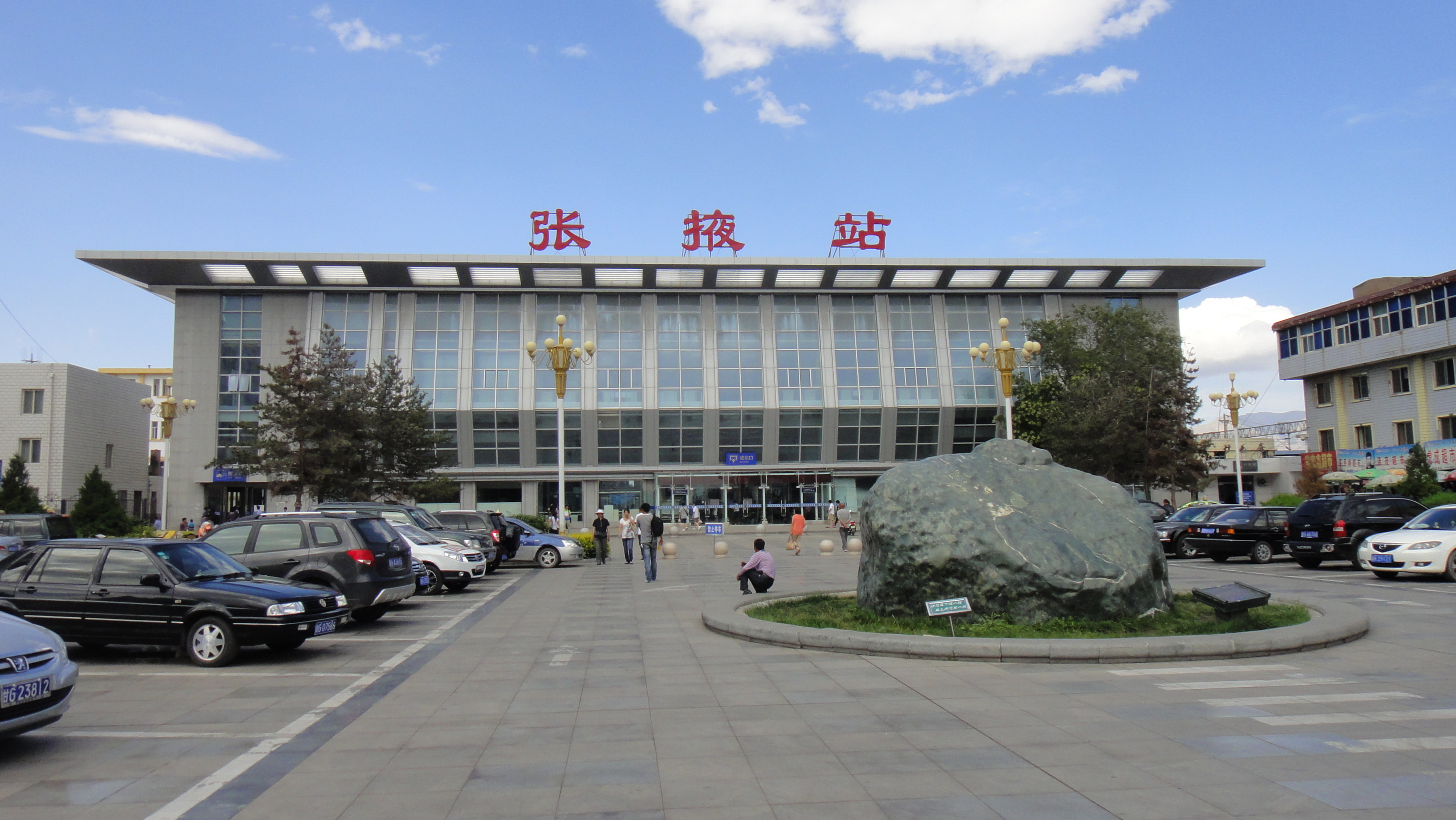 Exterior picture of Zhangye Railway Station Square